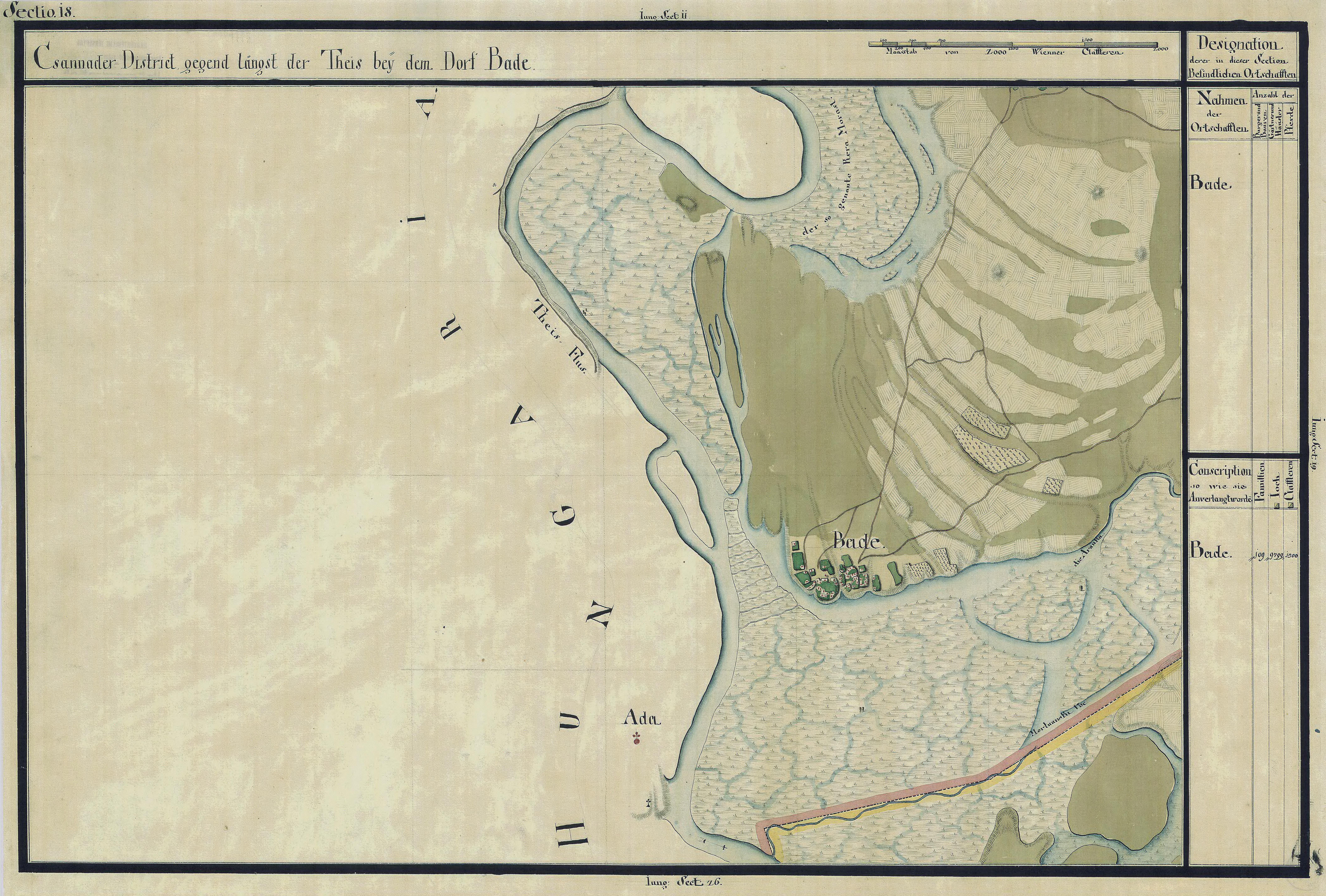 The Banat region in the cadastral maps: Josephinische Landesaufnahme, 1769-72. Josephinische Landaufnahme pg018